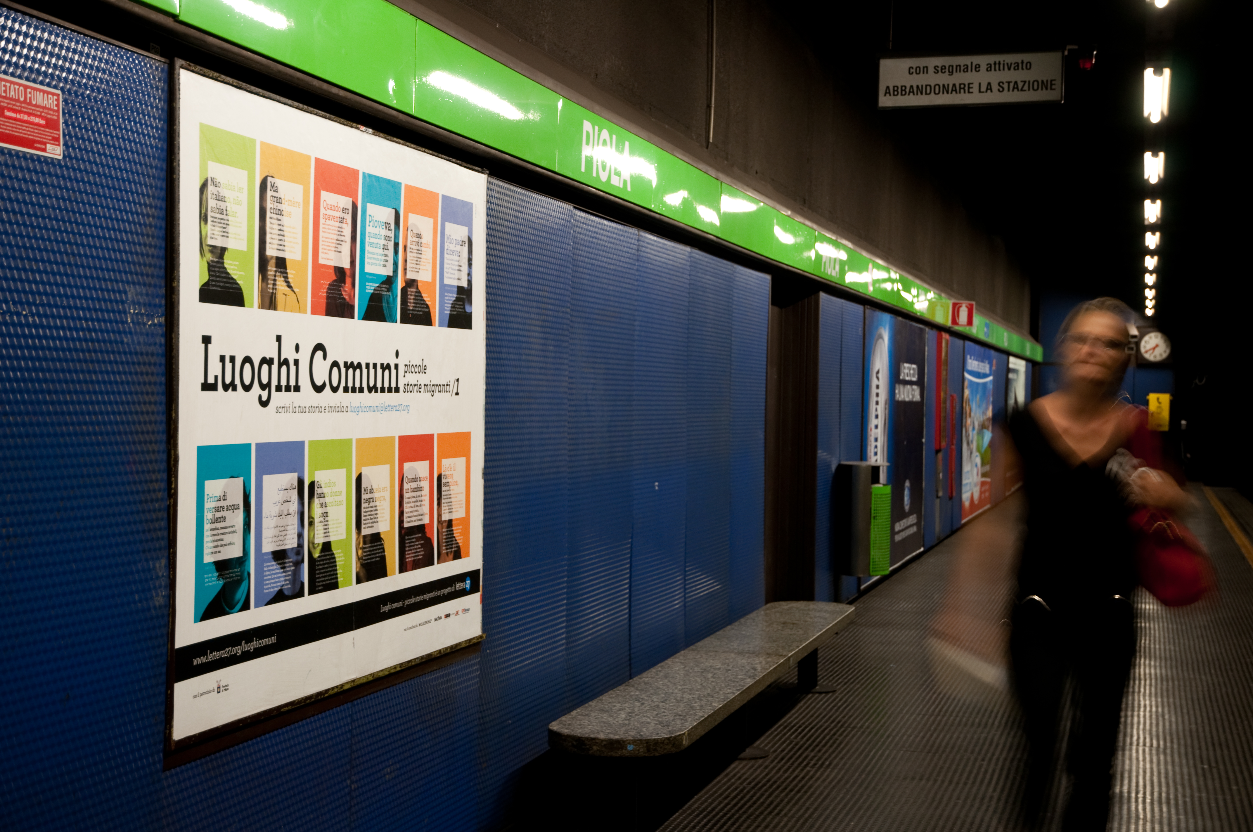 From May to July 2009, trams, buses, and 16 underground stations across Milan will be dressed with unusual billboards: not ads, but faces and words of first and second generation migrants, who amount to 25% of our daily urban companions. Luoghi comuni/little migrating stories is an anthology of short stories written by first and second generation migrants of all ages, men and women from many countries all over the world. These remarkable true stories and interviews have been collected in Milan, Turin and Naples by a team of psychologists, researchers and journalists. Luoghi comuni/little migrating stories aims to capture the wealth that circulates invisibly among the dwellers of a city; it wishes to associate a name and a face with these stories, and invest this legacy in the spaces where people come across each other most often. The stories, both in Italian and in the original language, are printed on billboards located on public transport and in underground stations in the cities which have taken part in the project. The short stories were transcribed with the contribution of an exceptional editor, Roberto Piumini. The project proposes a re-thinking of 'common places': a search for identities beyond stereotypes, symbolic imagery and diverse languages may transform a distracted, rushed moment into the possibility of a smile and complicity with others. After beginning in Milan in Spring 2009, Luoghi comuni continues its journey in 2010 with a new destination: Naples and the surrounding area. Luoghi comuni | Milano - April 2009 Luoghi comuni is soon to move on to other Italian cities. To take part in the next stop in this journey, tell us your story by sending it to Photo by Lucio Lazzara